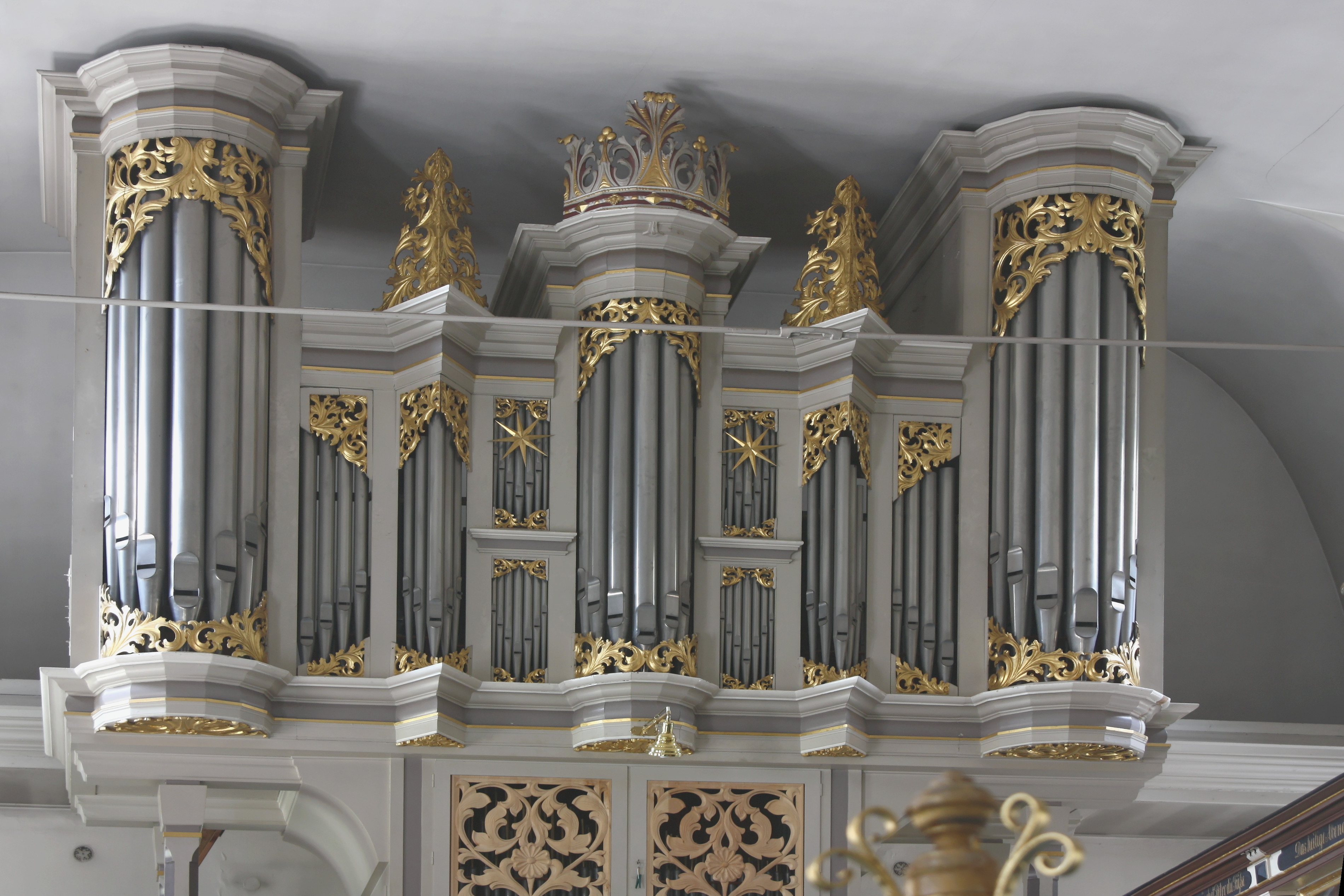 Church St. Severini, Hamburg-Kirchwerder, pipe organ